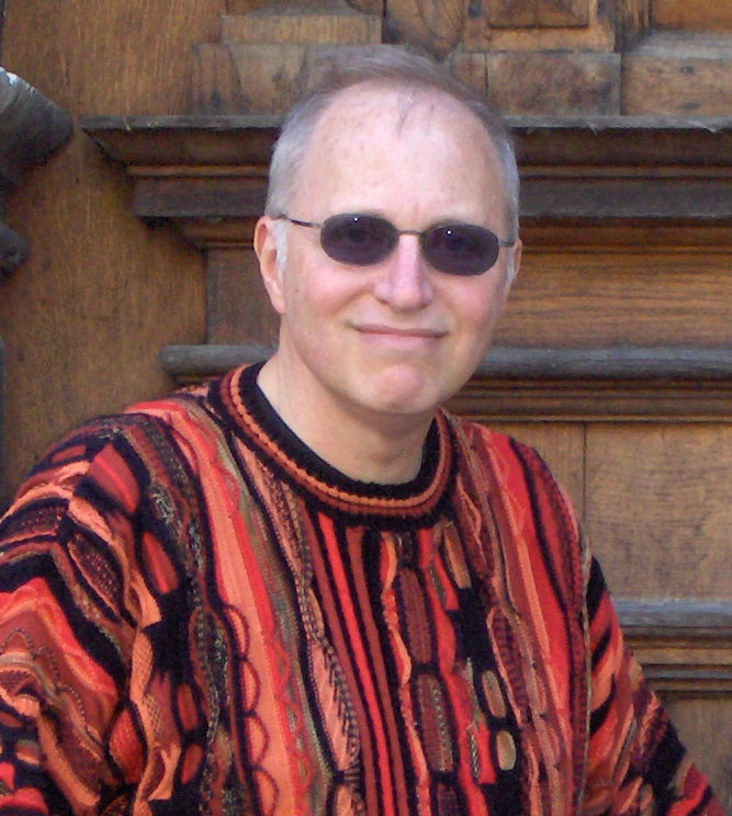 Marv Wolfman, award-winning American comic book writer